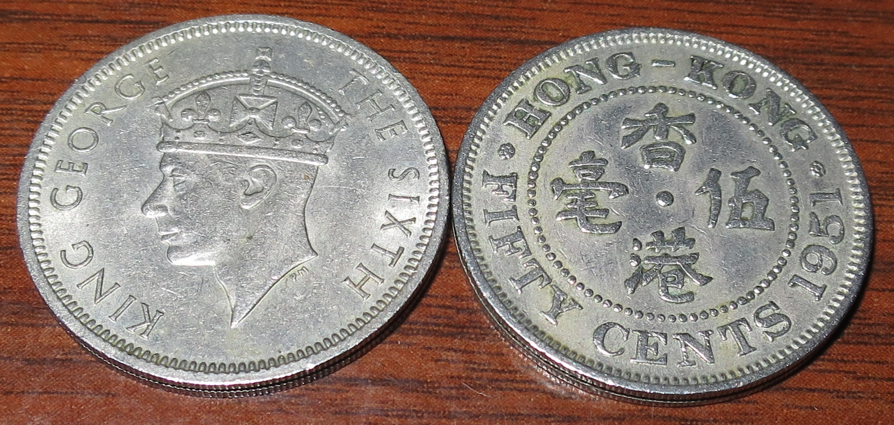 king George VI Hong Kong 50 Cents 1951, Copper-nickel, 5.85g, 23.5mm, reeded edge